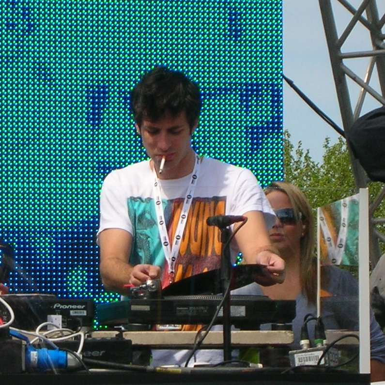 Mark Ronson DJing with Zane Lowe at Radio 1's Big Weekend in Preston